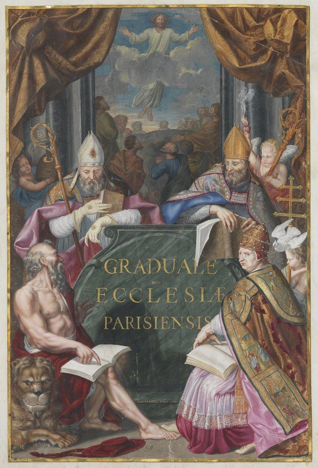 Title page of Graduale parisiensis ecclesiae, 1669 (Paris BNF), with an enluminure by Etienne Compardel